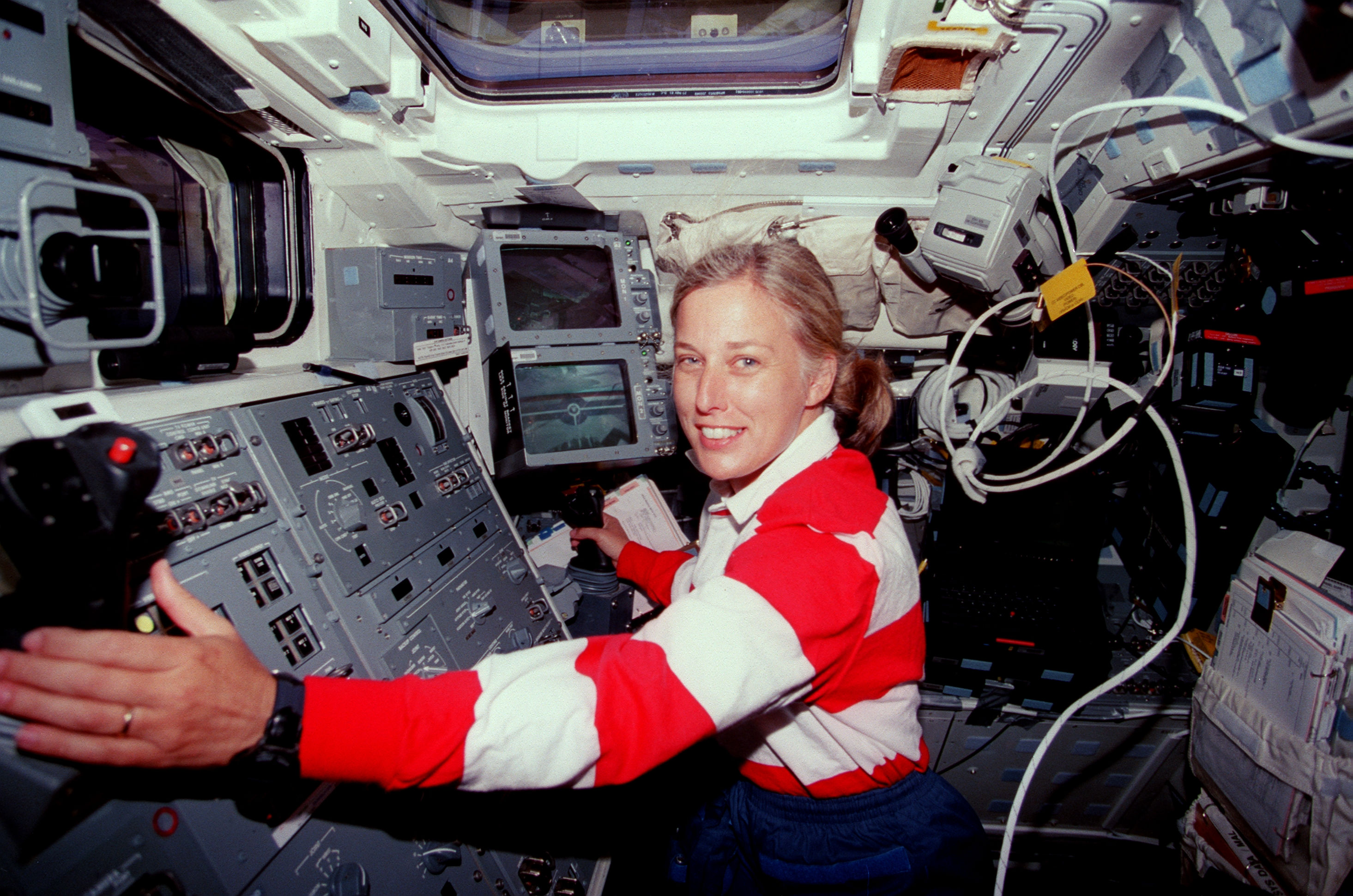 Astronaut N. Jan Davis, payload commander, is pictured at the work station for the Remote Manipulator System (RMS) on the aft flight deck of the Space Shuttle Discovery. Davis controlled and oversaw operations with the Cryogenic Infrared Spectrometers and Telescopes for the Atmosphere-Shuttle Pallet Satellite-2 (CRISTA-SPAS-2) during the 12-day mission in Earth-orbit.